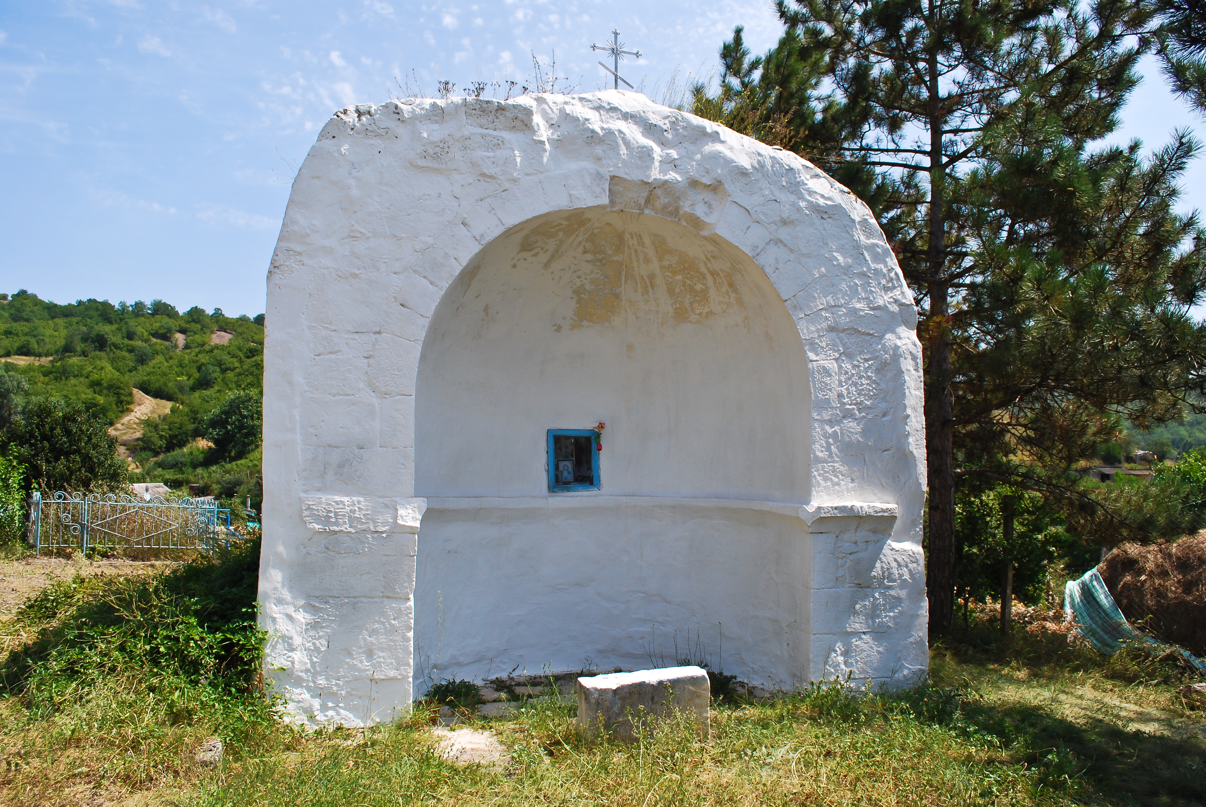 The ruins of old church in village Verkhorechye (Bakhchisaray Raion, Ukraine)